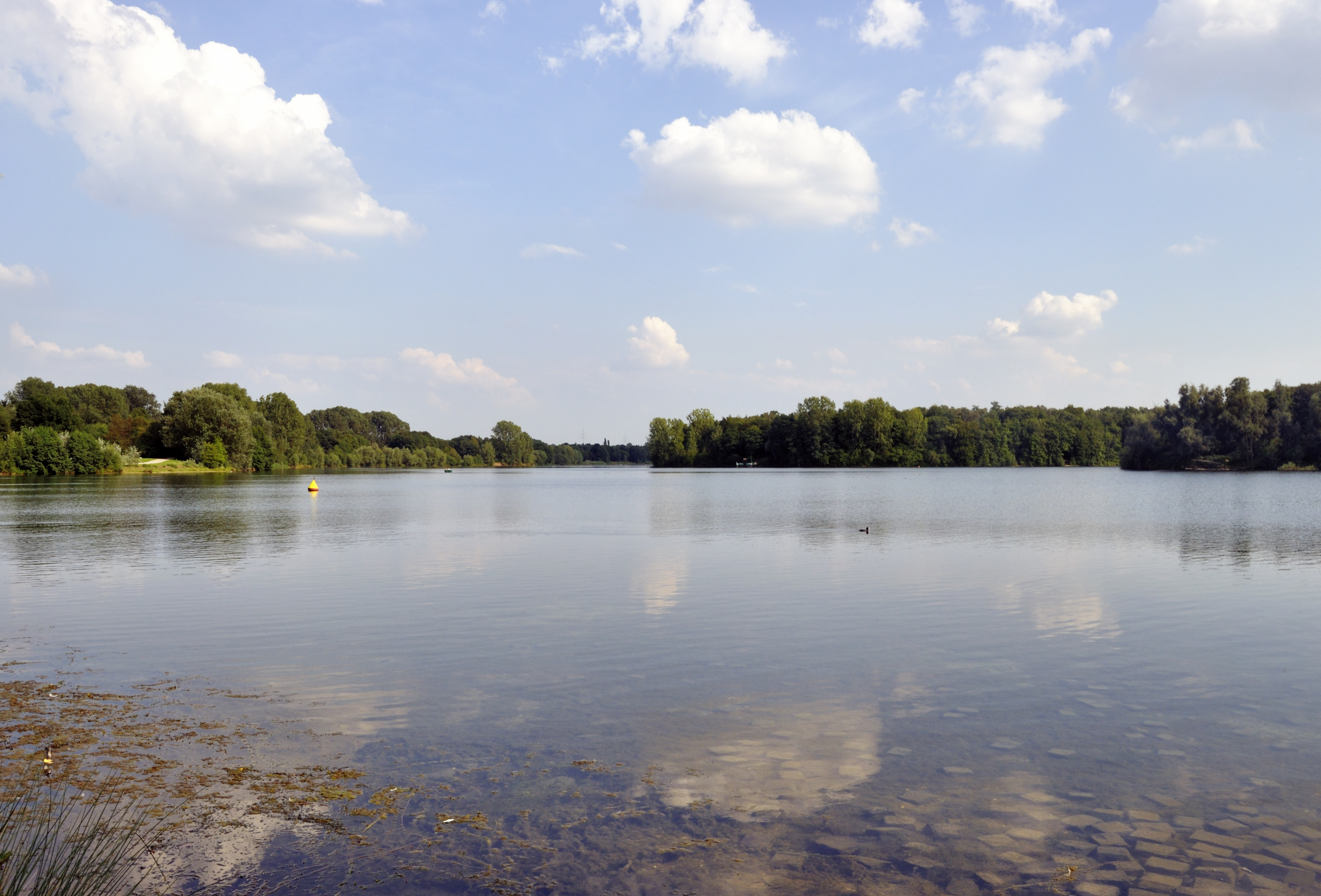 Picture taken in Duisburg while summer meetup.